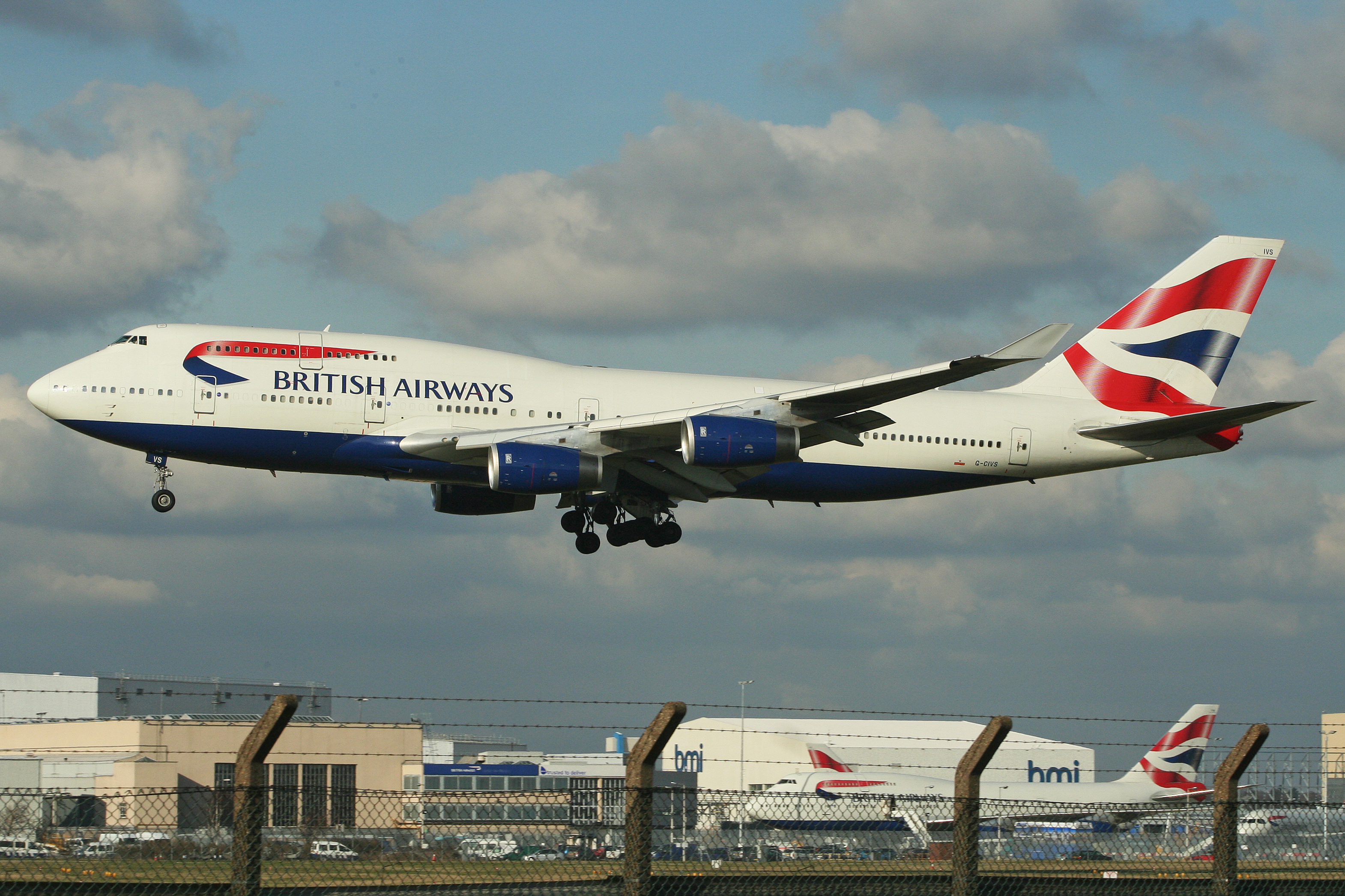 msn 28851, l/n 1148. Arriving on flight BA038 from Beijing. London Heathrow. 26-2-2012